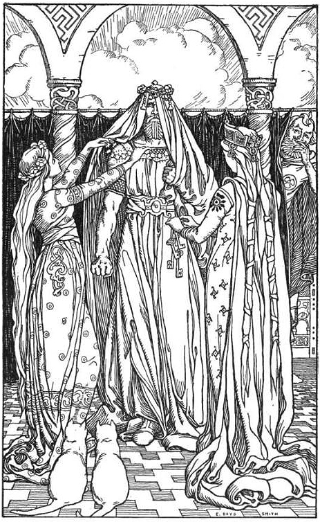 "Ah, what a ugly maid it is!" by Elmer Boyd Smith. The god Thor is dressed to appear as the goddess Freyja by two maidens, while the god Loki laughs. Two cats watch.